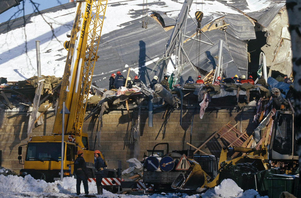 “Rescuers in Transvaal Park after incedent”. Glass roof collapse in the Transvaal Park. EMERCOM rescuers with fire brigades and emergency working on the place of the incedent.